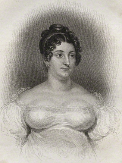 Mademoiselle Georges (Marguerite-Josephine Weimer) published by John Bell, (1745–1831) after Rose Emma Drummond stipple engraving, 9 1/4 in. x 5 5/8 in. (236 mm x 142 mm) plate size; 11 1/4 in. x 8 in. (286 mm x 202 mm) paper size Given by Henry Witte Martin, 1861 NPG D42330